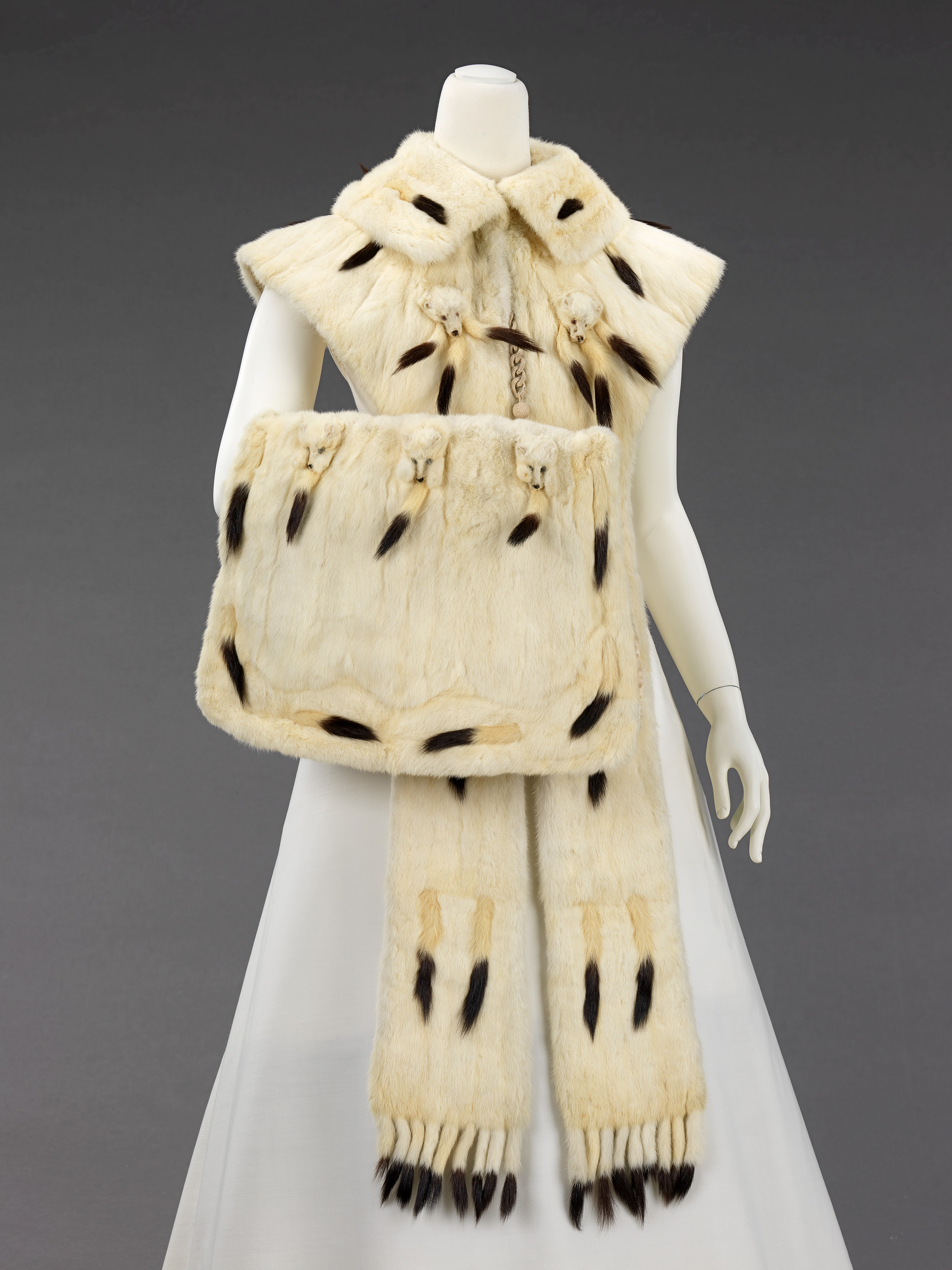 American; Accessory Set